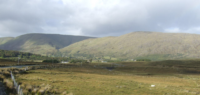 Joyces Country The range of hills north of Maum, and facing the Maumturks, are the known by this affectionate and evocative term.